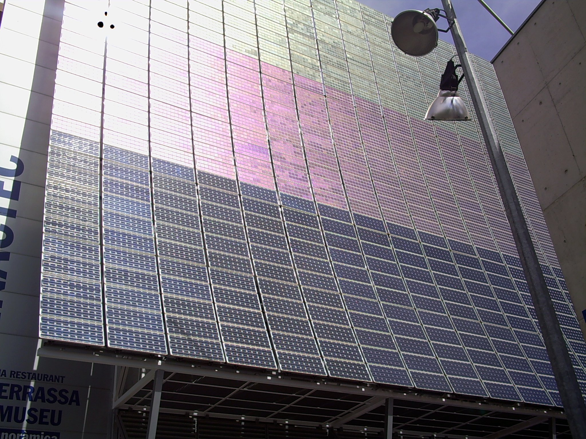 Photovoltaic façade, from the mNATECT, Terrassa, (Catalunya).